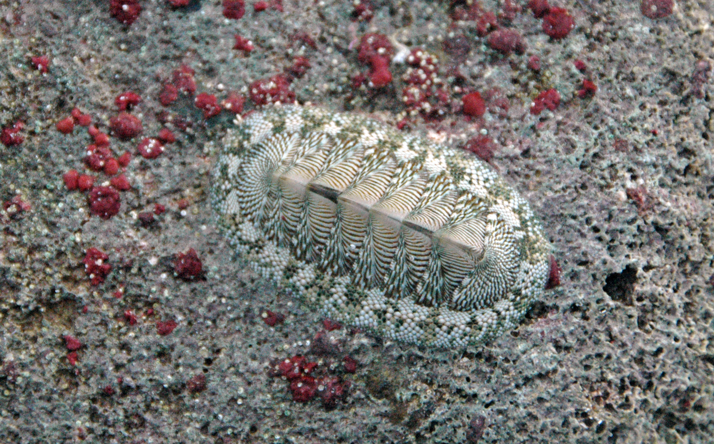 Chiton tuberculatus Linnaeus, 1758 - West Indian green chiton on exposed aragonitic limestone rock surface in the intertidal zone. Chitons are bilaterally symmetrical, dorso-ventrally flattened molluscs having eight overlapping shells (valves) surrounded by a spicule-covered mantle girdle. Most chitons occupy very shallow marine, rocky shore environments, where they graze on benthic algae by scraping the substrate with a radula. The red structures are encrusting Homotrema rubrum (Lamarck, 1816) rotaliine foraminifera. Classification of chiton: Animalia, Mollusca, Polyplacophora, Neoloricata, Chitonidae Classification of foraminifera: Protista, Foraminiferida, Rotaliina, Homotrematidae Locality: limestone rock surface in intertidal zone landward of Snapshot Reef, Fernandez Bay, offshore western San Salvador Island, eastern Bahamas